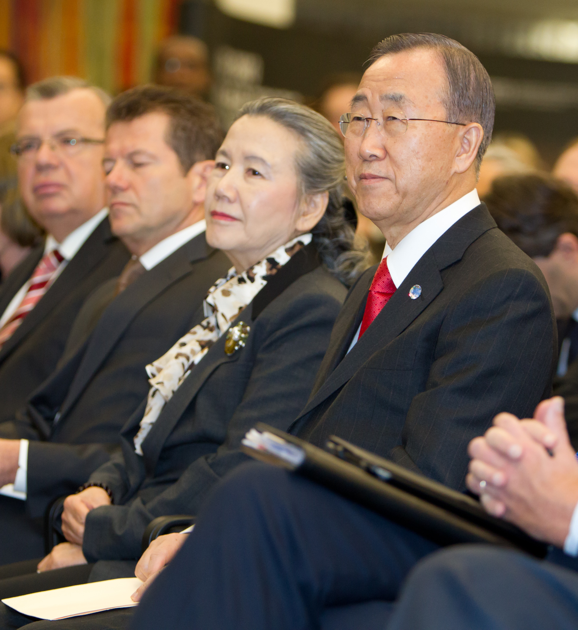 Vienna, Austria, 17.02.2012 - CTBTO 15th anniversary